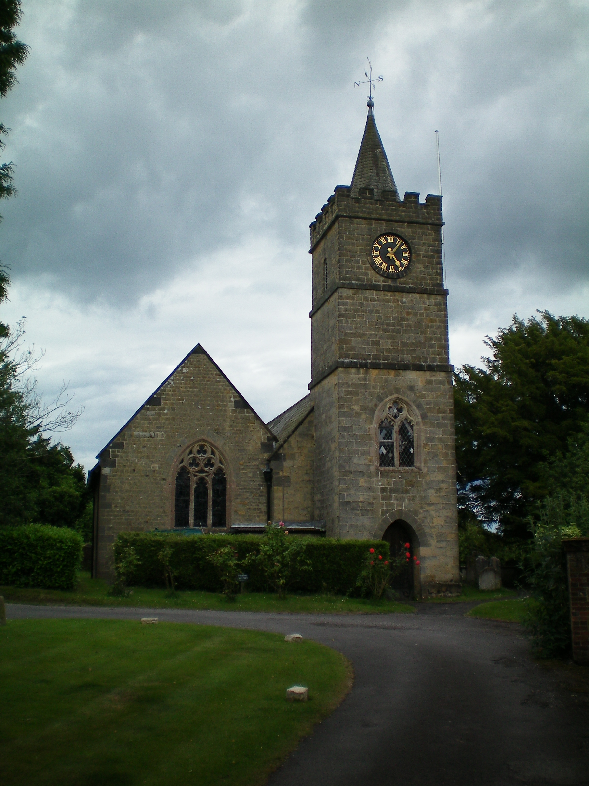 St Michael & All Angels parish church, Northchapel, West Sussex, seen from the west